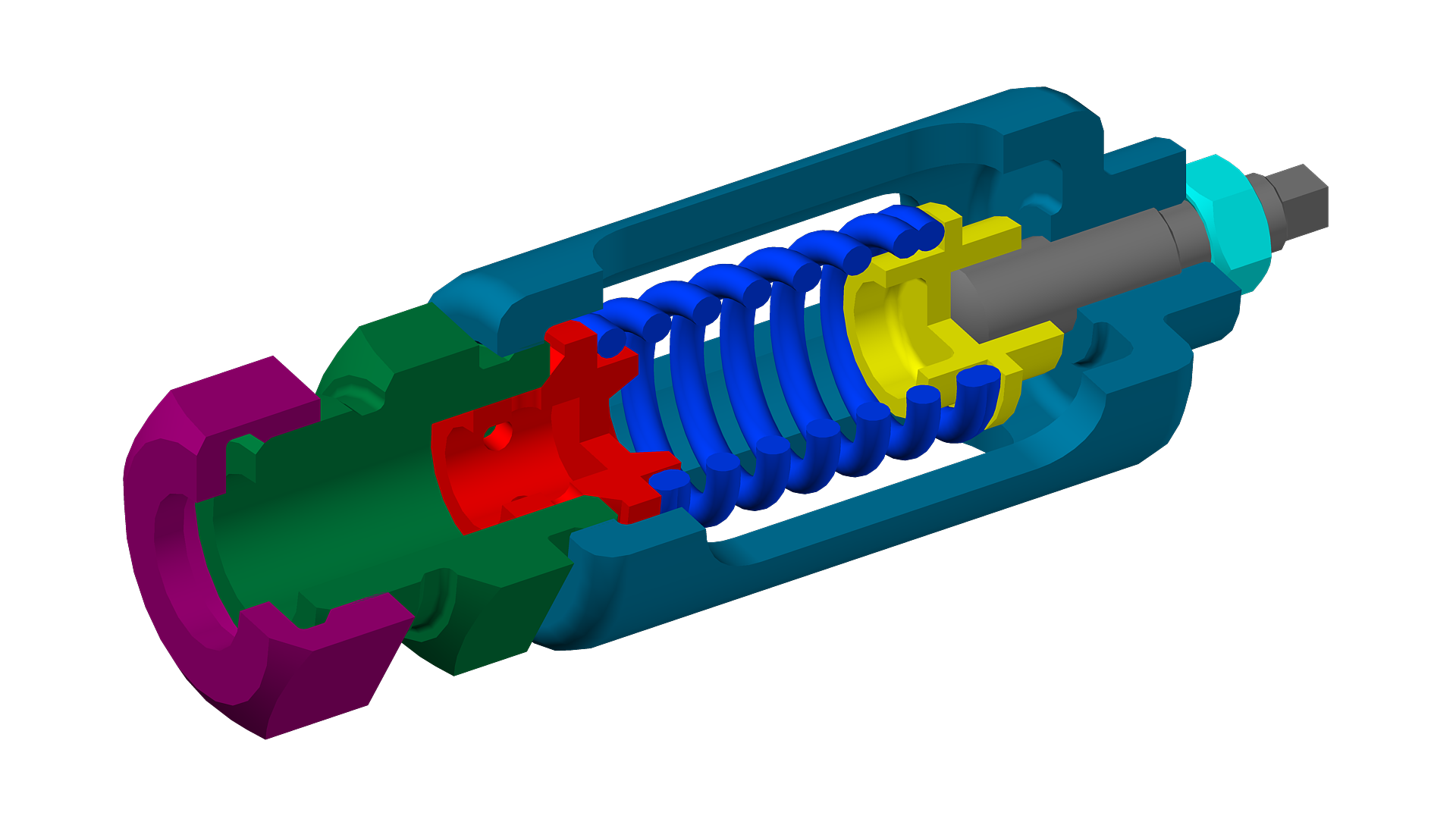 Pressure Relief Valve